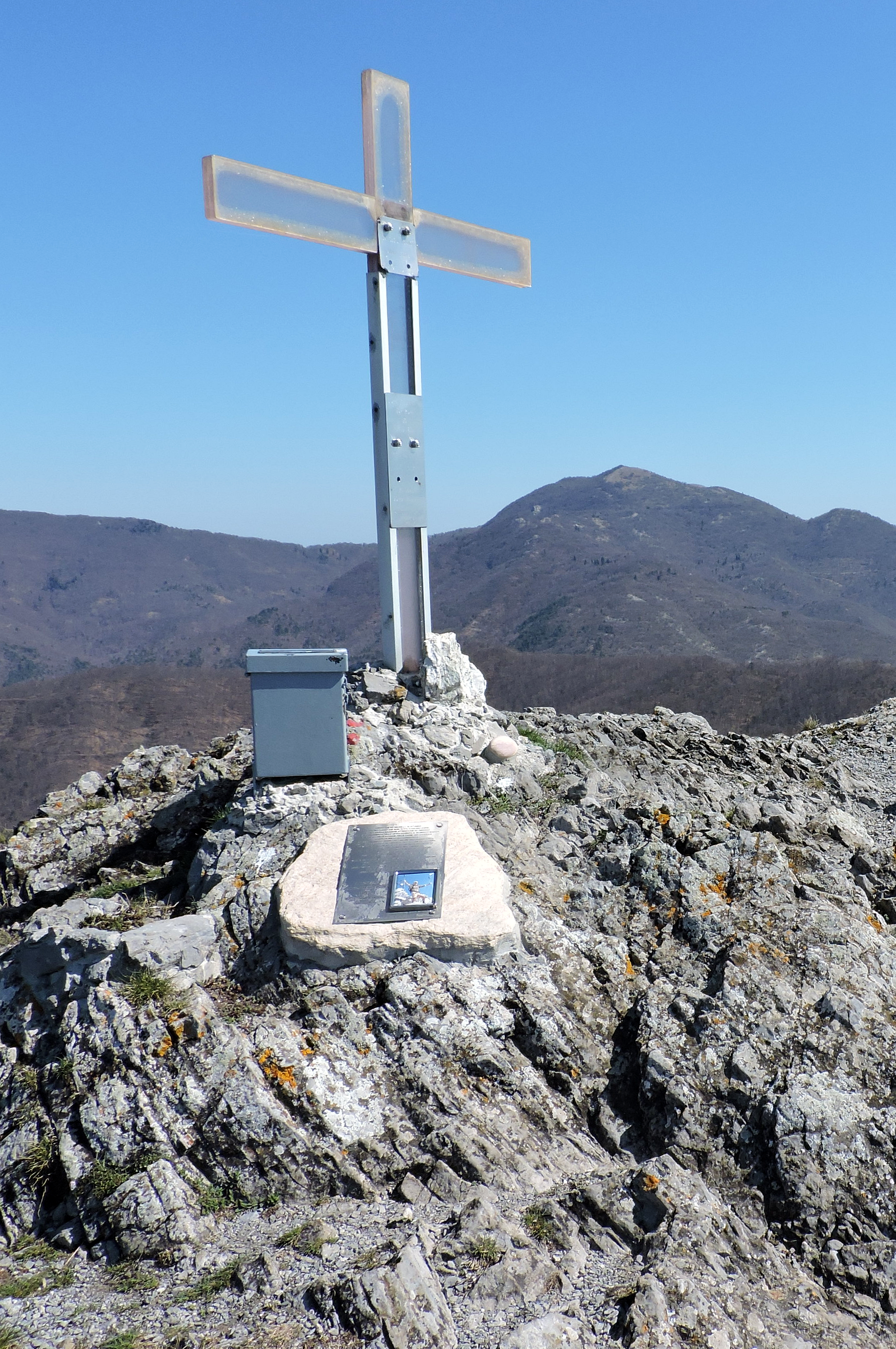 Rocca Barbena (Ligurian Prealps, SV, Itay): summit cross